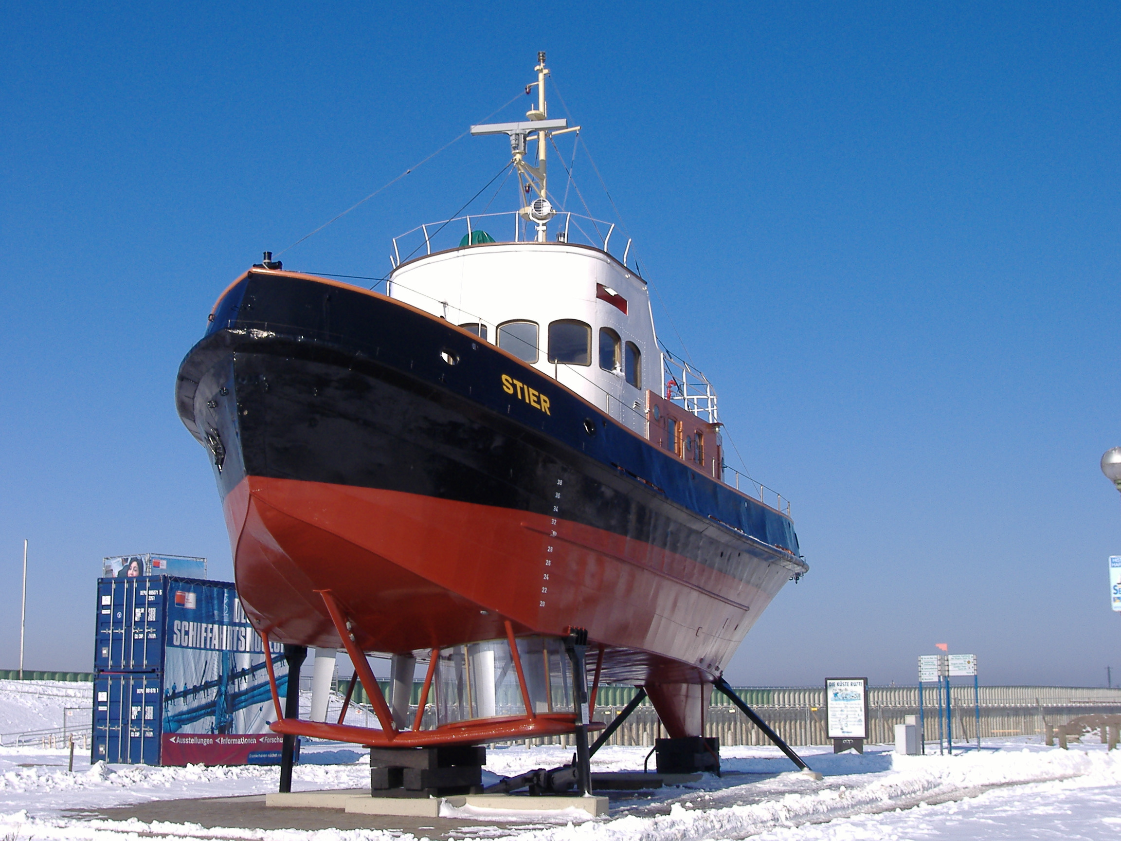 harbor tug Stier, Deutsches Schiffahrtsmuseum, Bremerhaven, Germany (check out Voith-Schneider drive)